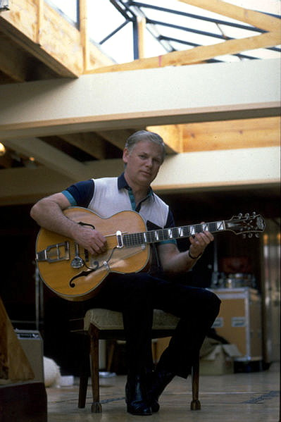 Vic Flick recording in London, 1989.